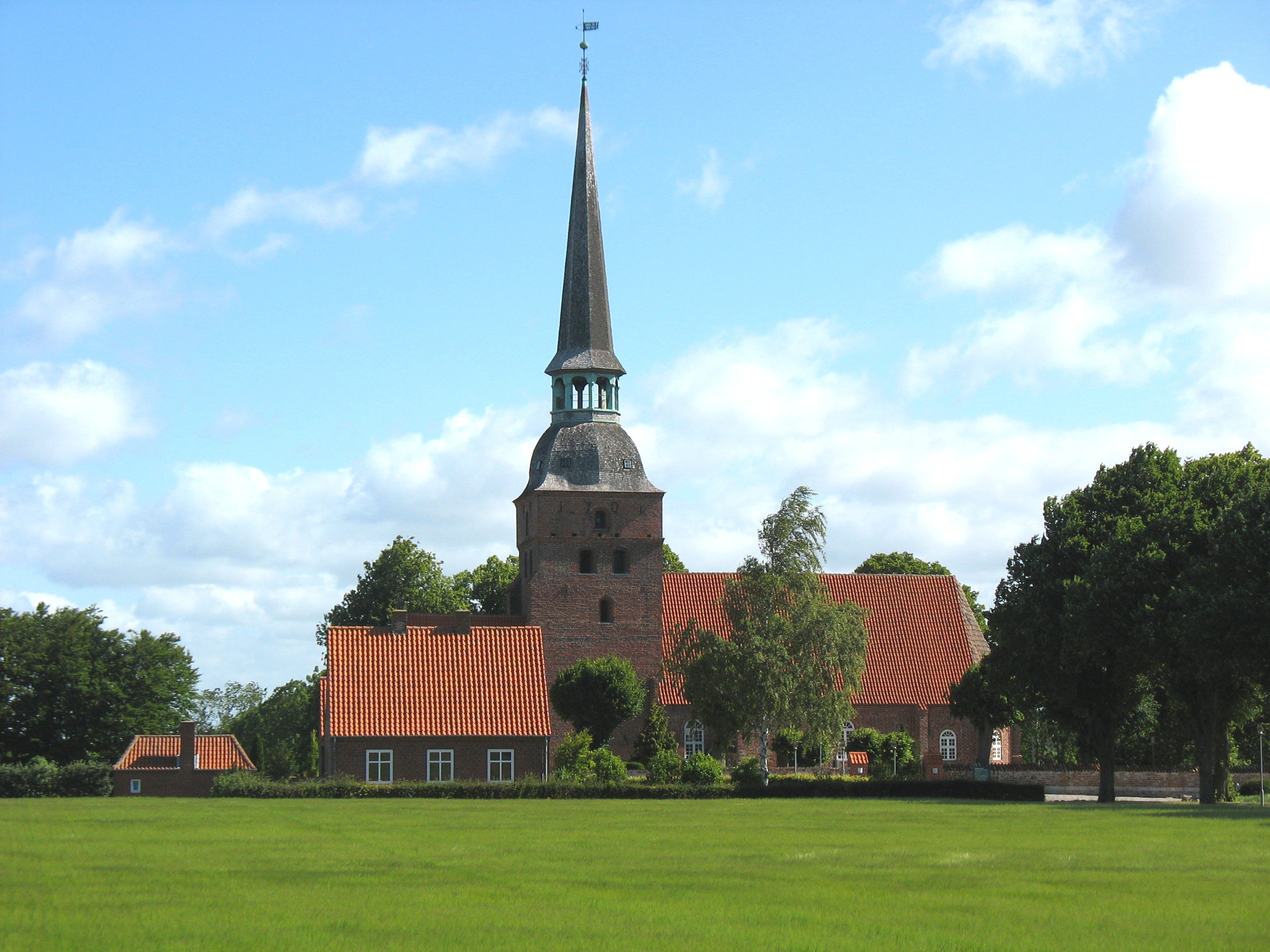 The church "Kippinge Kirke" located on the Danish island Falster.